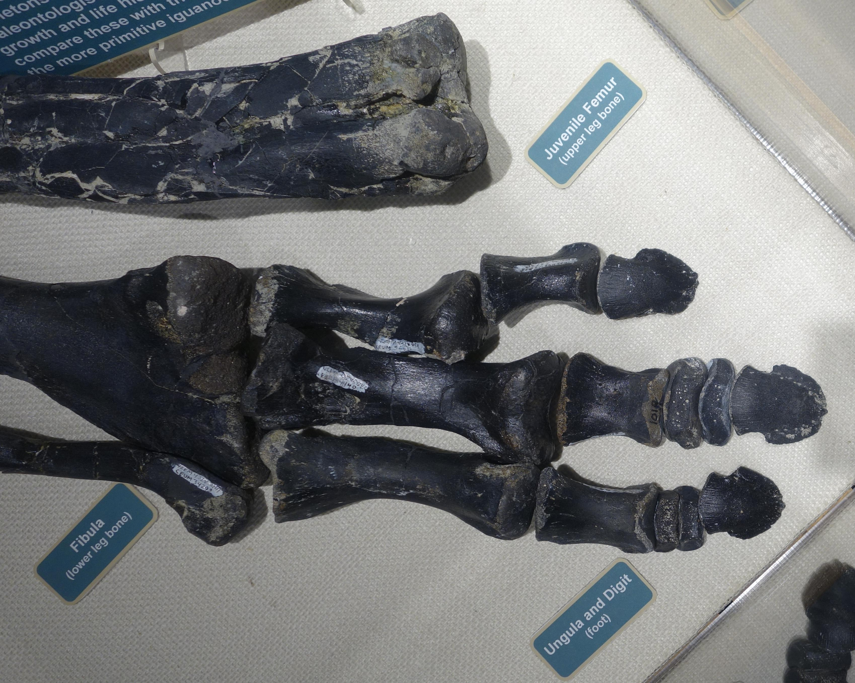 Pes skeleton of Eolambia caroljonesi. On display at the USU Eastern Prehistoric Museum, Price, Utah (US).